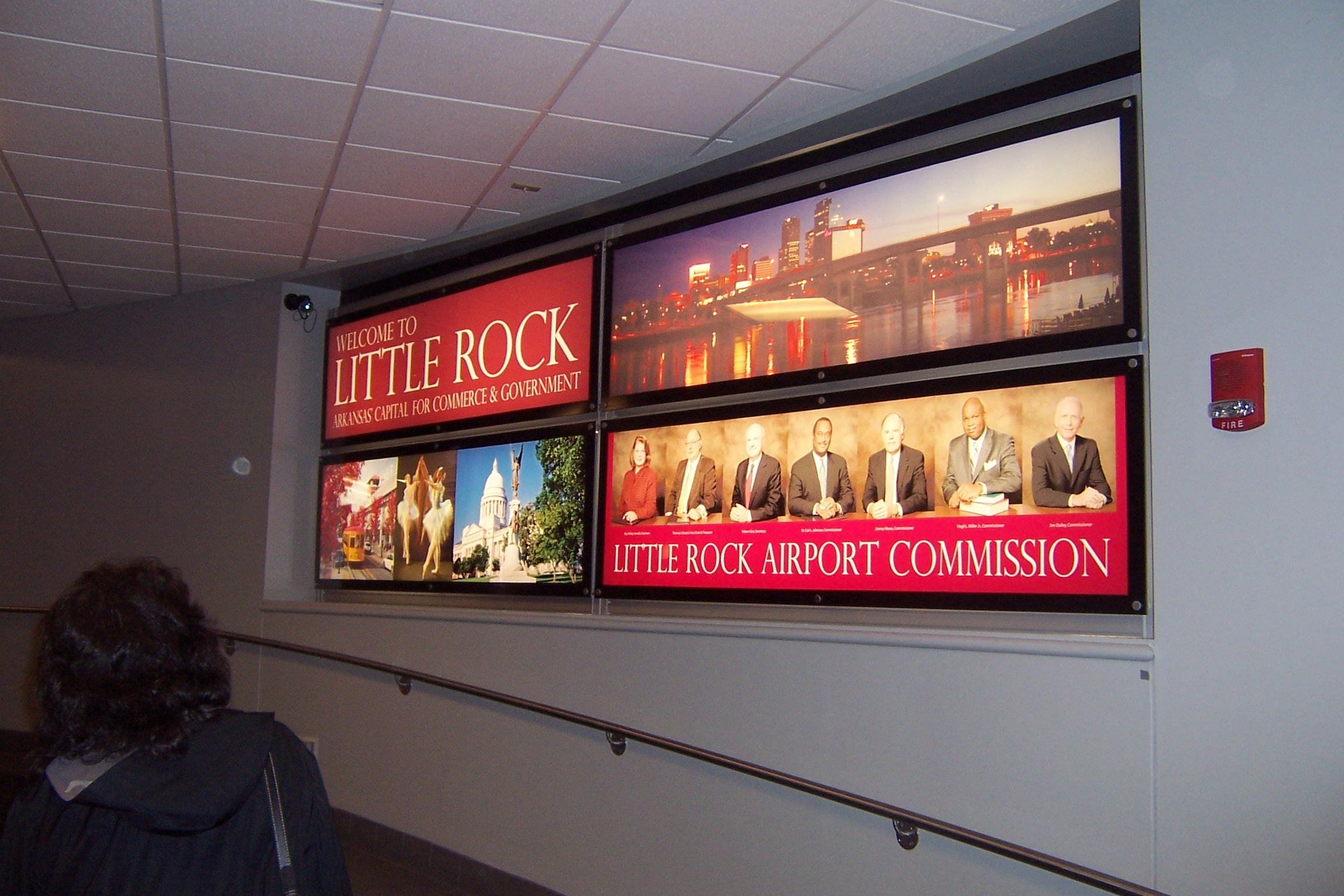 Welcoming sign at Little Rock National Airport